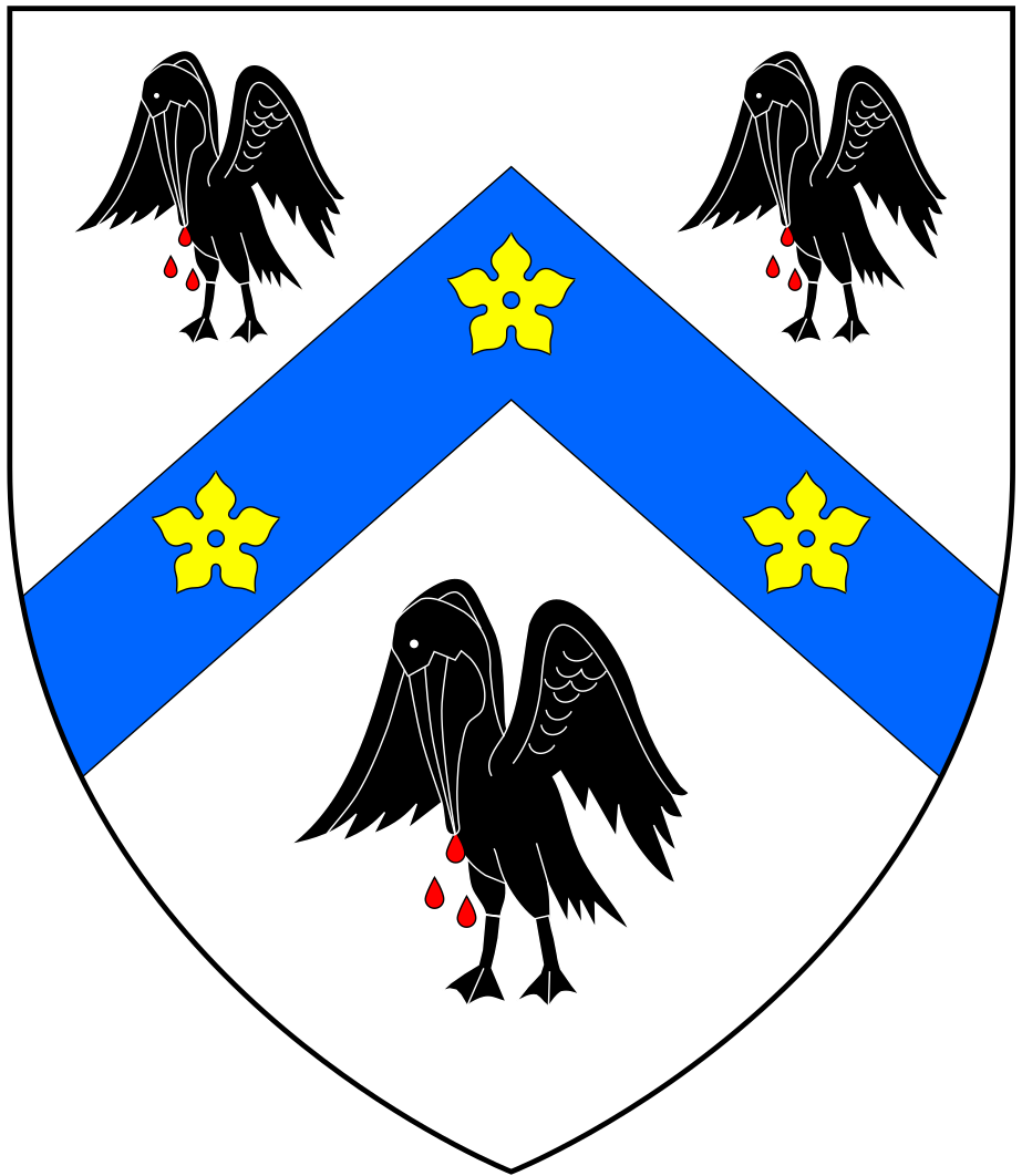 Paternal canting arms of Thomas Cranmer, Archbishop of Canterbury: Argent, a chevron between three cranes azure. Showing the arms of the See of Canterbury impaling the canting arms of Cranmer: A chevron between three cranes. These arms were changed by King Henry VIII to On a chevron between three pelicans vulning themselves three cinquefoils as recorded by Thomas Strype in 1693: About this time it was, as I conjecture, that the King changed his coat of armse. For unto the year 1543 he bore his paternal coat of three cranes sable, as I find by a date set under his arms, yet remaining in a window in Lambethhouse. For it is to be noted, that the King, perceiving how much ado Cranmer would have in the defence of his religion, altered the three cranes, which were parcel of his ancestors' arms, into three pelicans, declaring unto him, "That those birds should signify unto him, that he ought "to be ready, as the pelican is, to shed his blood for his "young ones, brought up in the faith of Christ. For," said the King, " you are like to be tasted, if you stand to your "tackling at length." (Strype, John, Historical and Biographical Works: Memorials of Thomas Cranmer Chapter 28, 1544 (p.181 of 1840 edition[1]) Cranmer's seal of Nov. 1538 still showed cranes, but by April 1540 he had adopted the pelicans. (Ridley, Jasper, Thomas Cranmer, note 1 to chapter 1[2]) Arms of Cranmer (per Berry, William, Encyclopaedia Heraldica, Or Complete Dictionary of Heraldry, Volume 2[3] : Argent, a chevron between three cranes azure and later arms: Argent, on a chevron azure between three pelicans sable vulning themselves proper as many cinquefoils or Further discussion of Cranmer's seals and heraldry see: MacCulloch, Diarmaid, Thomas Cranmer: A Life, pp.9-12[4]